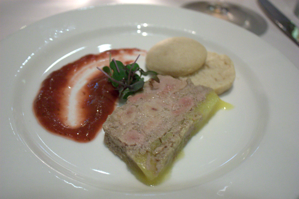 La Cote Brasserie restaurant, New Orleans. Foie gras terrine